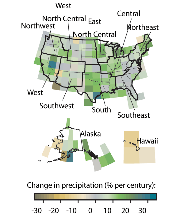 Precipitation trends in the United States, from the period 1901-2005. In some areas rainfall has increased in the last century, while some areas have dried.